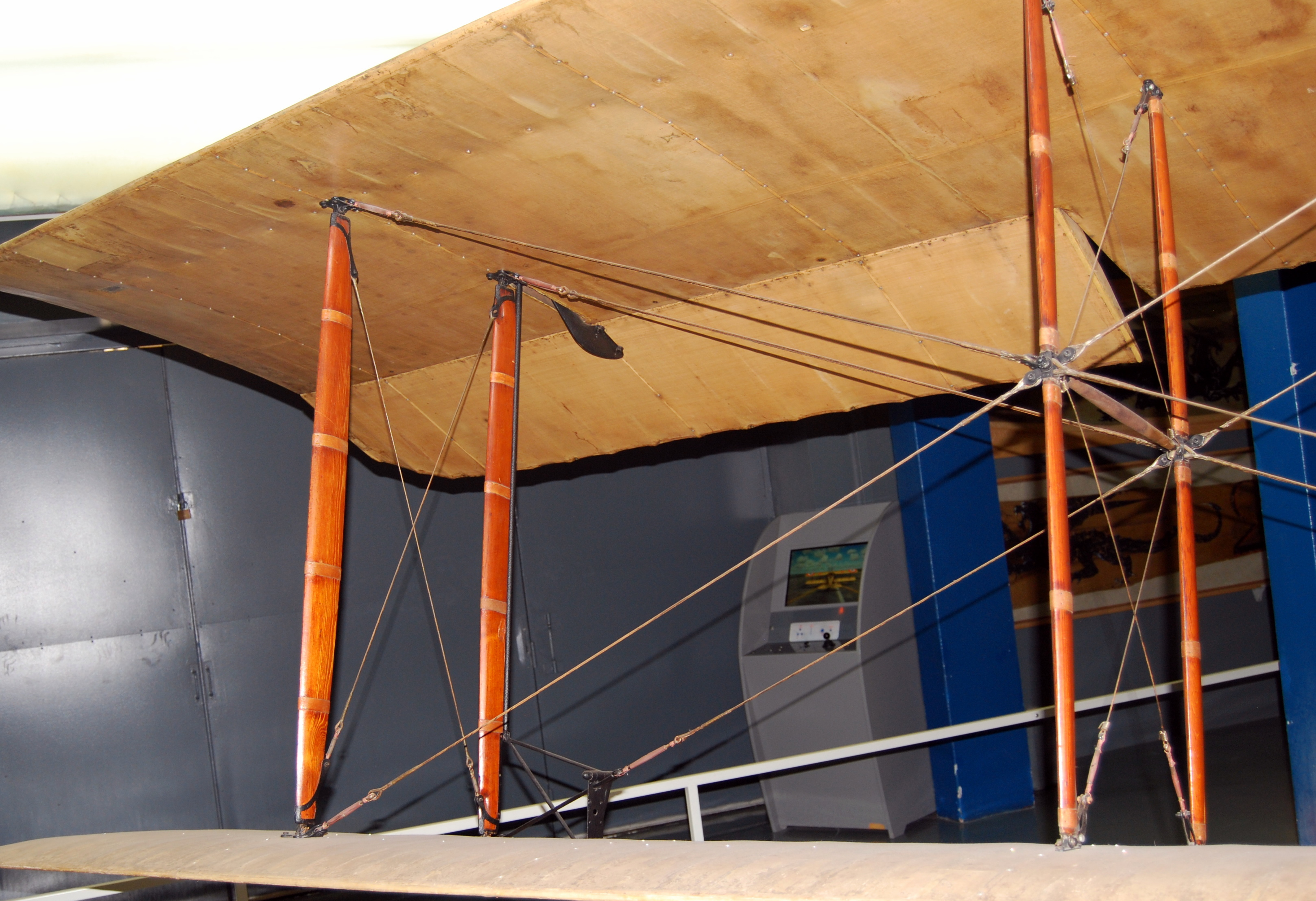 Photo ref; DSC1142-2012